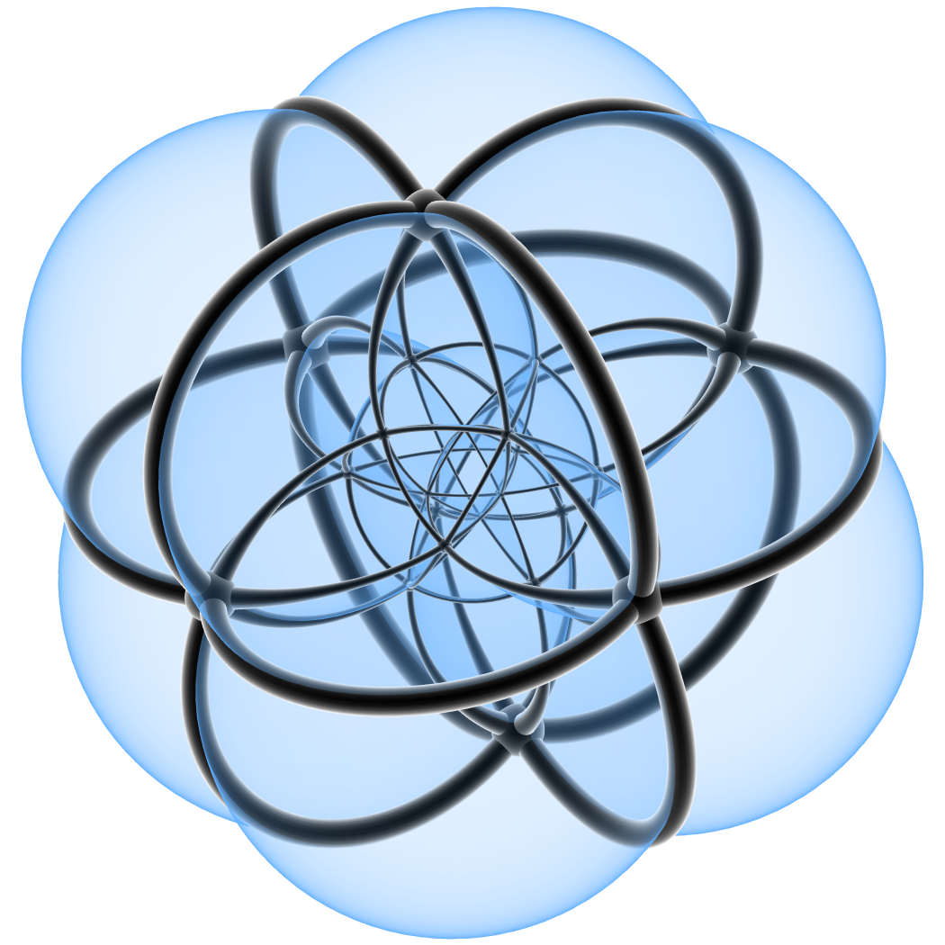 Stereographic projection of the 24-cell, a 4-dimensional polytope. Vertices and edges are in black; faces in blue. The features appear curved due to the angle-preserving stereographic projection from the hypersphere to Euclidean space, but are actually flat in the hypersphere. created with: Jenn3d [1]